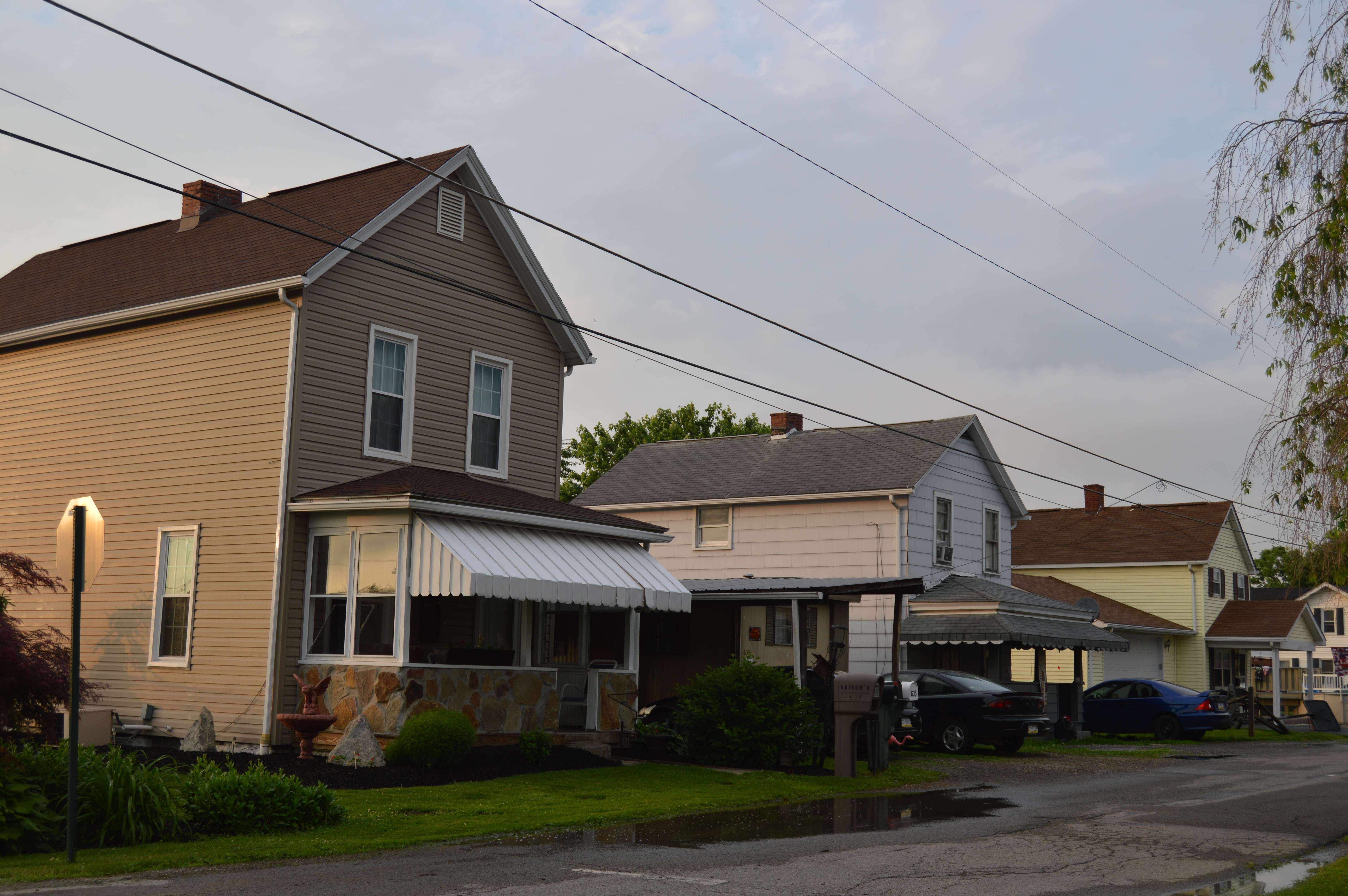 Houses on the northeastern side of Dewey Street just south of the Orr Avenue intersection in Ford Cliff, Pennsylvania, United States.